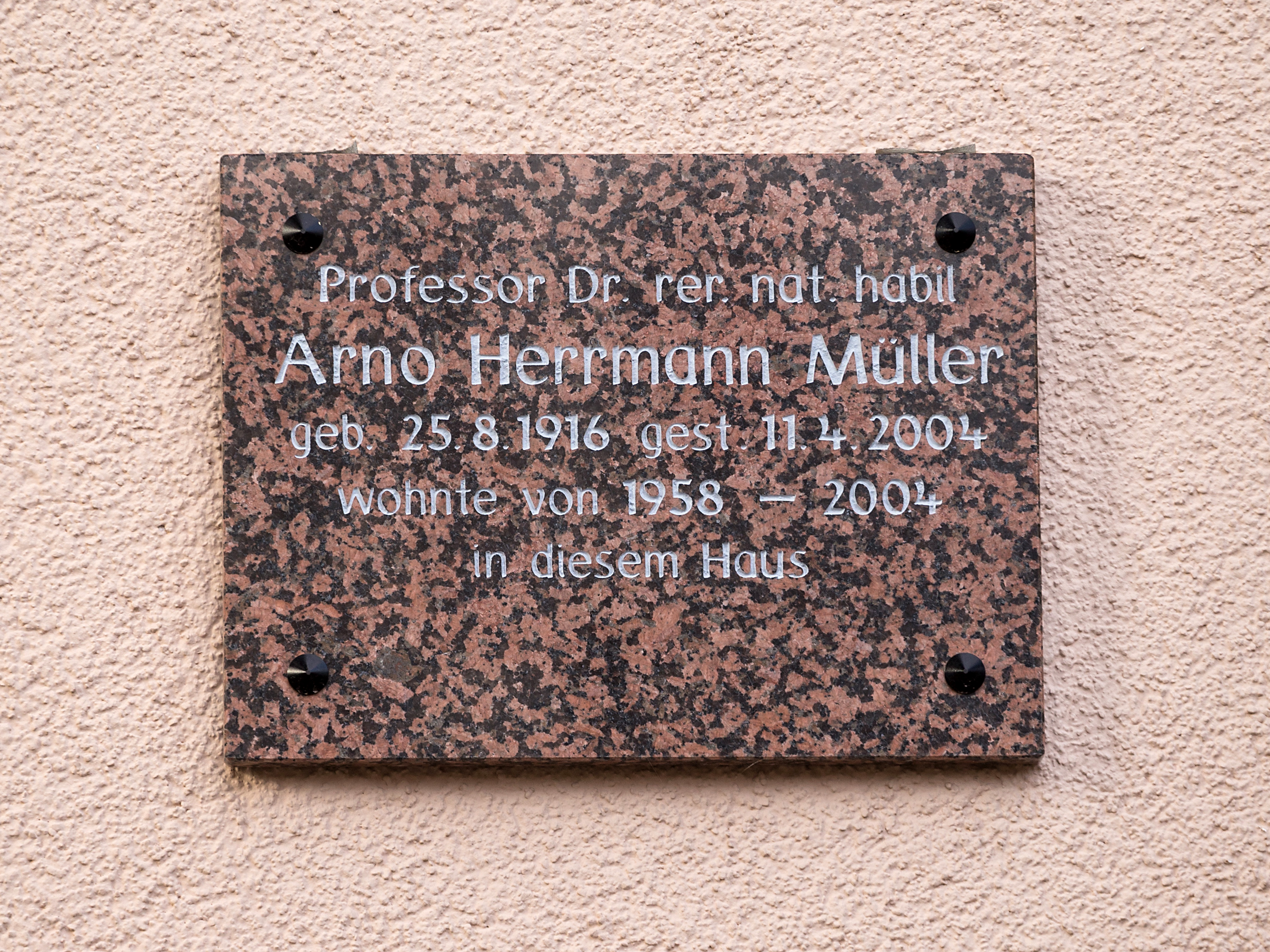 Arno Hermann Müller, memorial plaque at his residence in Freiberg